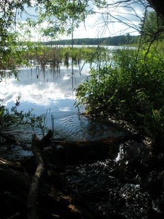 Straight River leaves Straight Lake